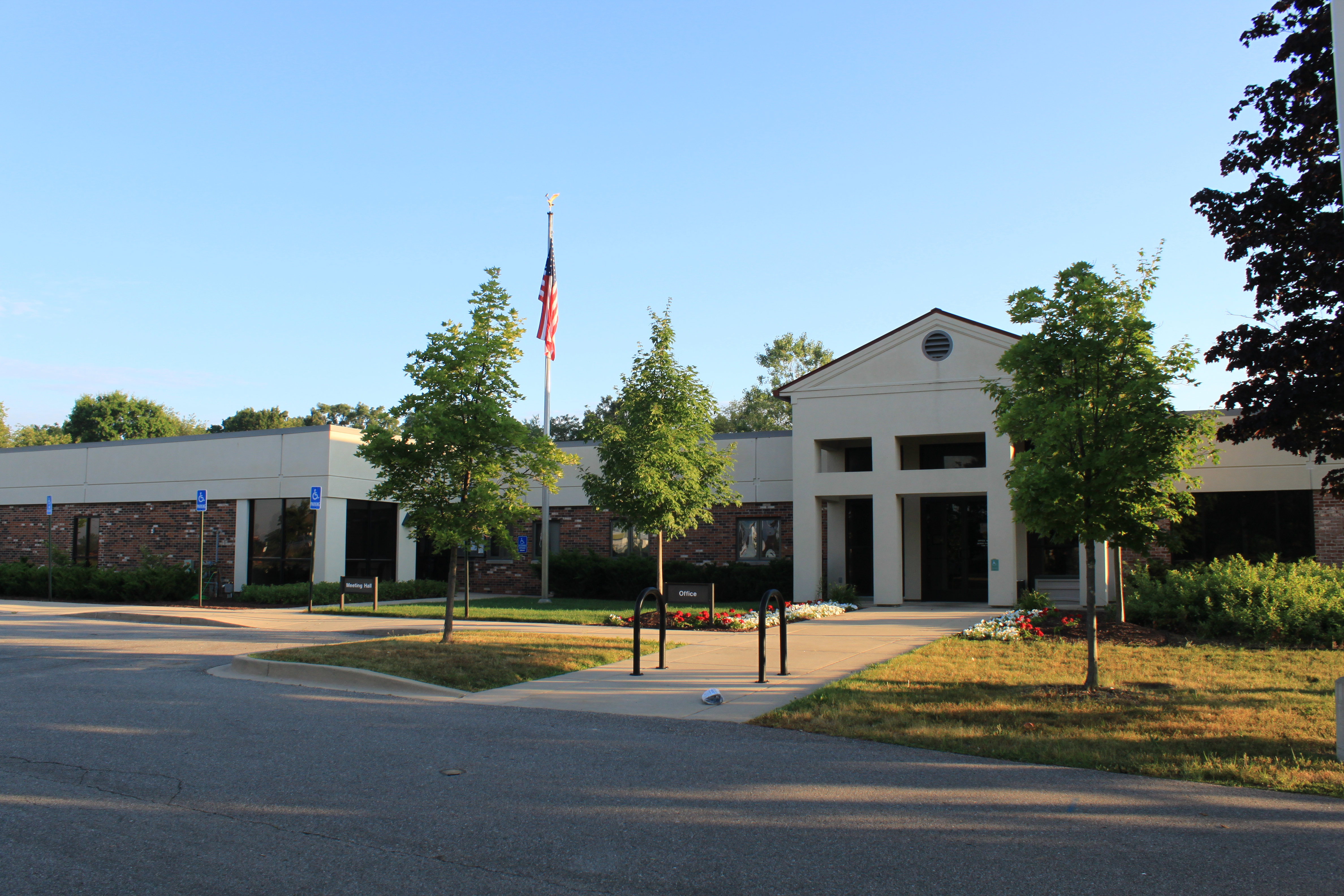 Scio Township Hall, Michigan, 827 North Zeeb Road